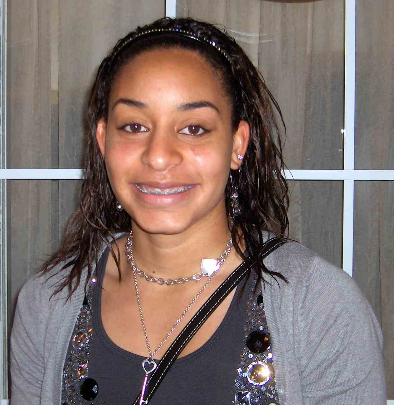 Bria Hartley, incoming freshman point guard at the University of Connecticut. Taken at the reception before the Championship dinner to celebrate the 2010 National Championship